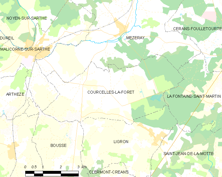 Map of French municipality